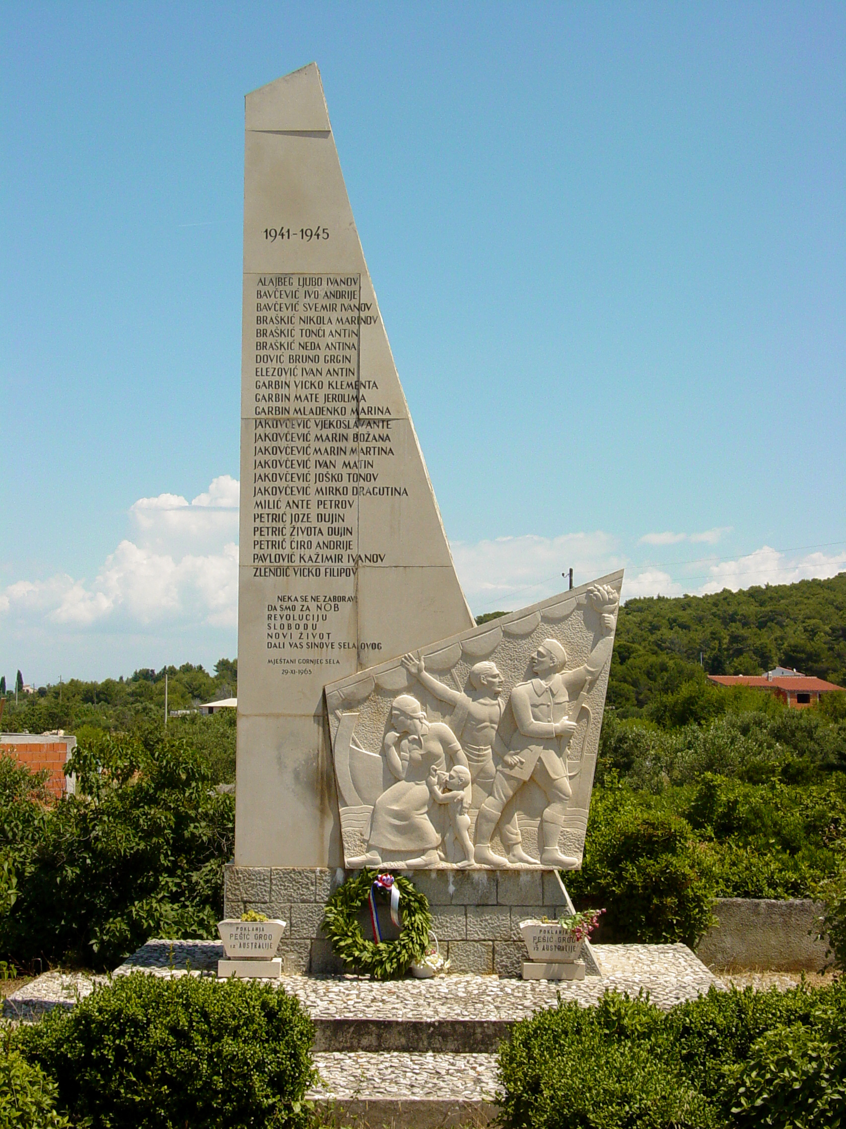 Monument to World War Two dead on Solta Island, Croatia. June 2004.